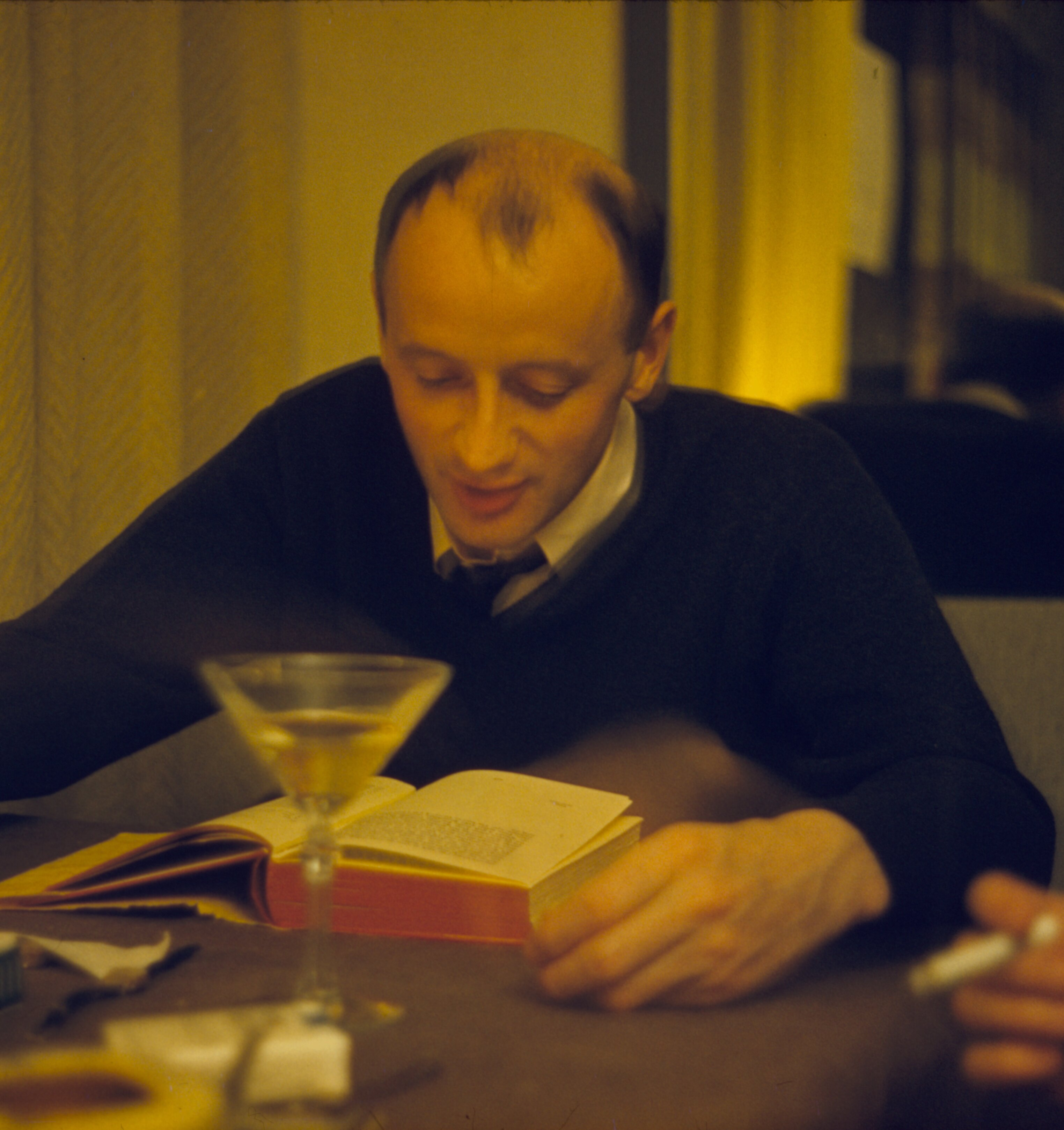 Photograph of the Irish-American architect Kevin Roche (1921–) at Balthazar Korab's house, Birmingham, Michigan. Note: No known restrictions on publication. Balthazar Korab Archive (Library of Congress).